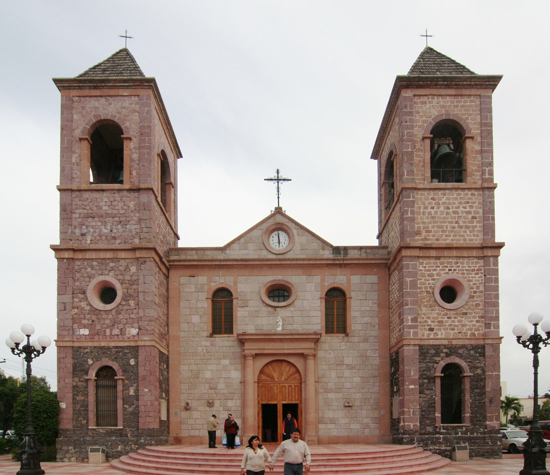 La Paz Cathedral